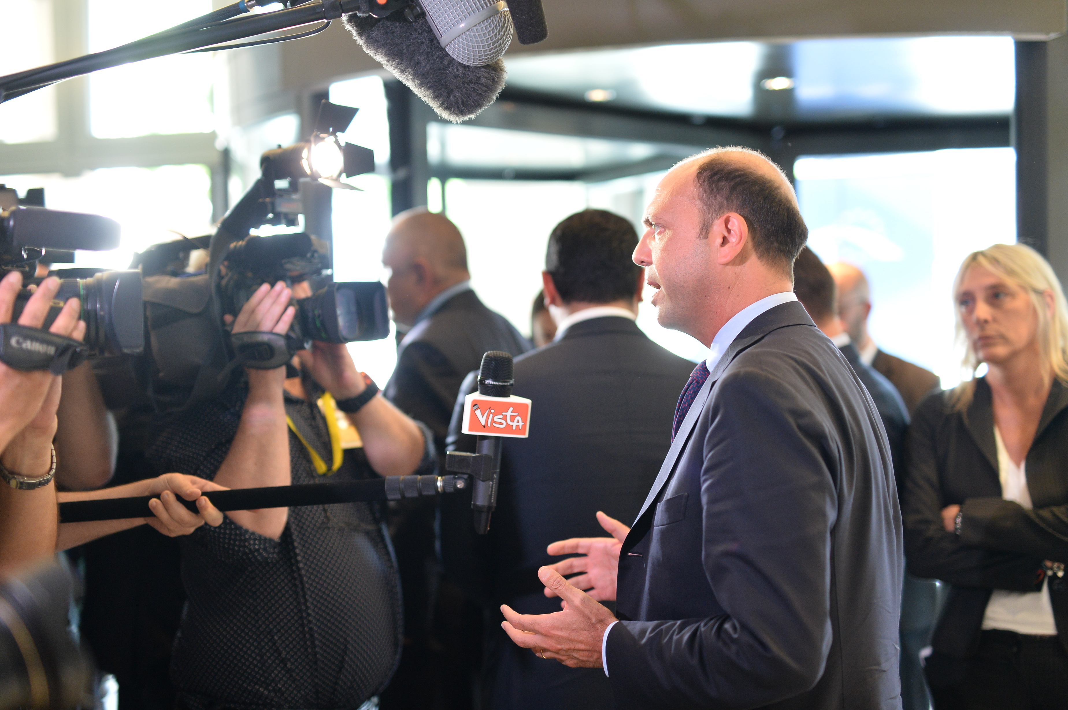 EPP Summit, Brussels, July 2014